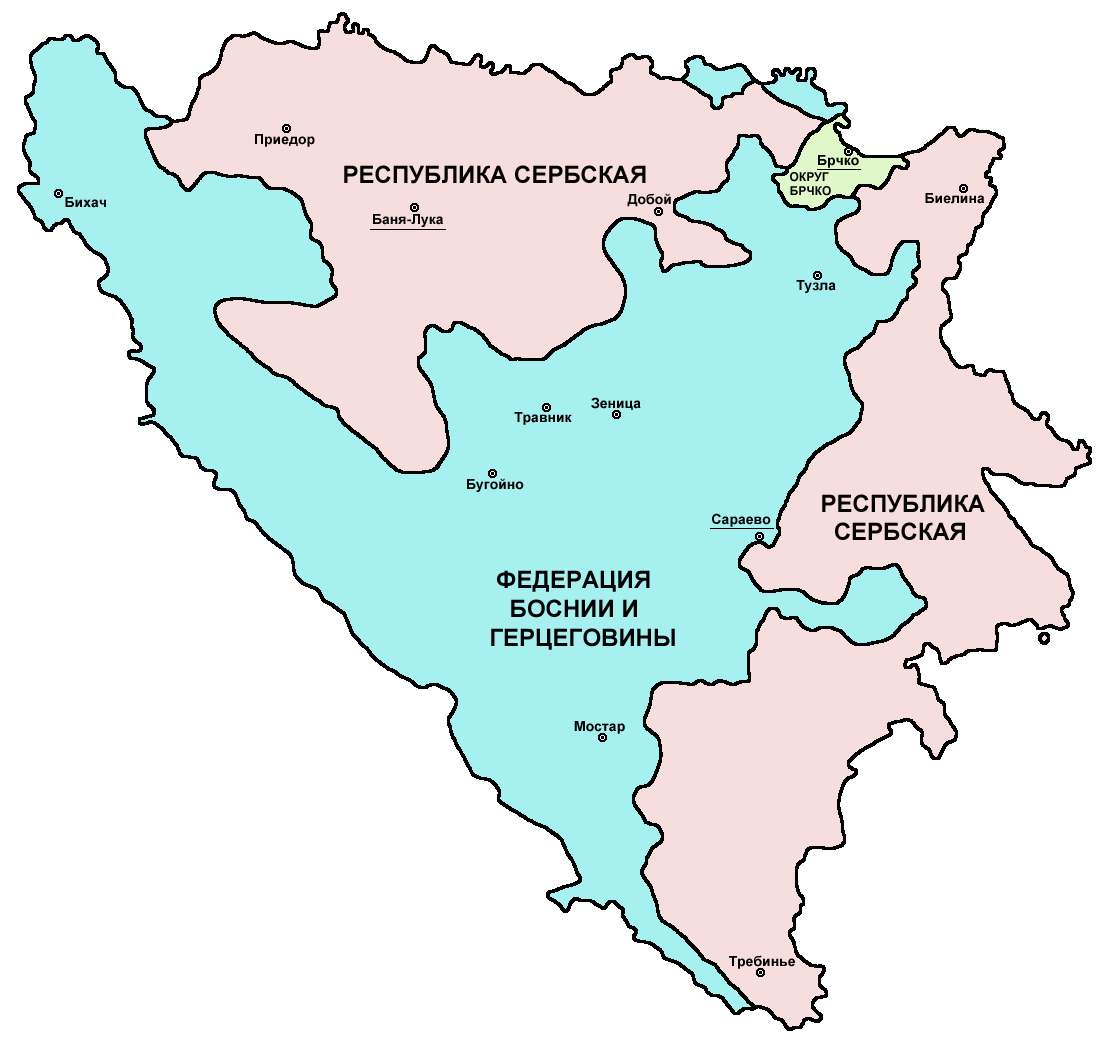 Federation of Bosnia and Herzegovina, Republika Srpska and Brčko district in Russian language.